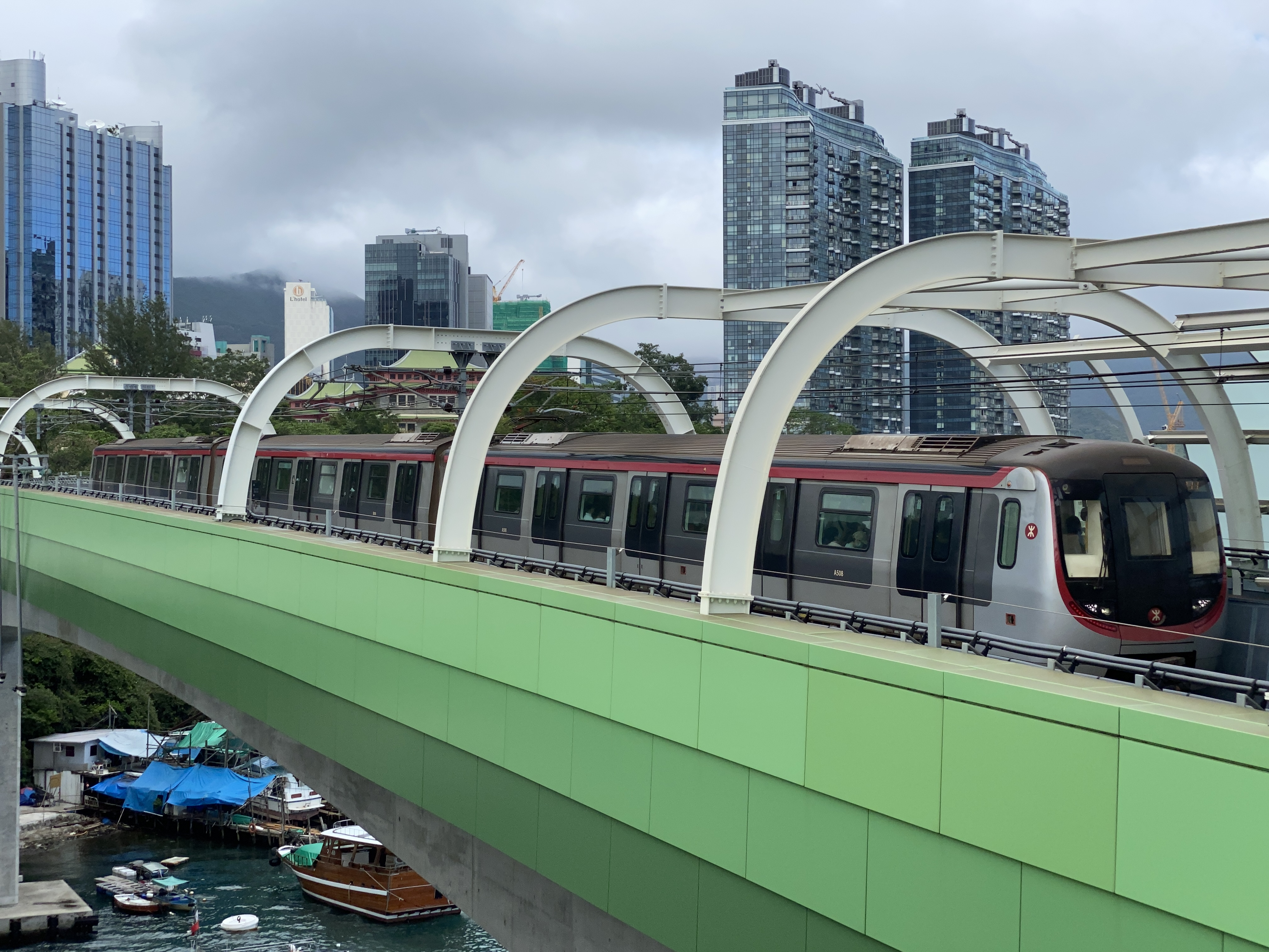 中文（香港）: This photo is taken in Ap Lei Chau.